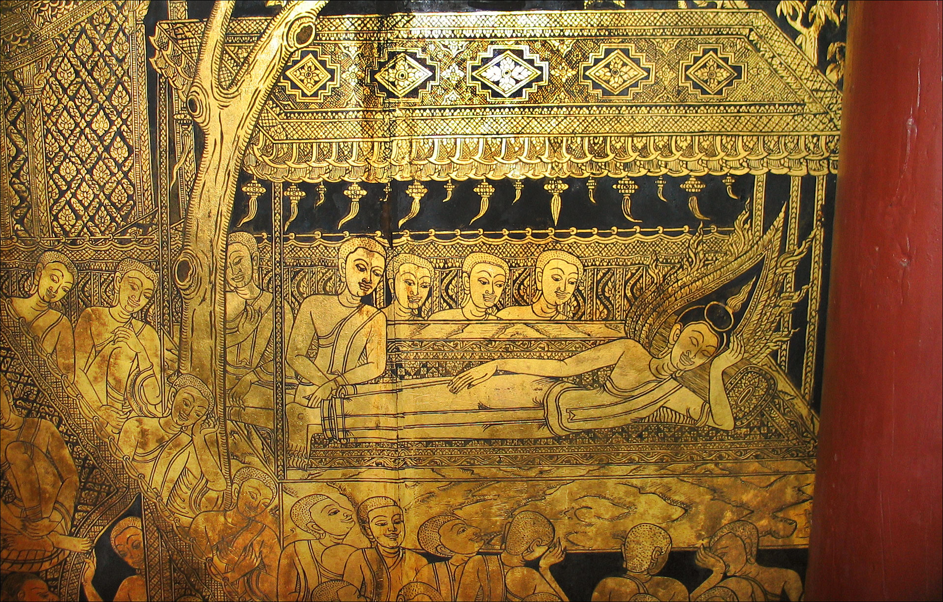 Gold-on-lacquer wall painting in the "Lacquer Pavillon" of Suan Pakkad Palace, Bangkok, Thailand